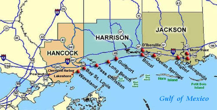 Coastal map of the U.S. state of Mississippi, showing major towns and cities in the three coastal counties: Hancock, Harrison, and Jackson County. Also shown are Cat Island, West Ship Island, East Ship Island, Horn Island and Petit Bois Island.The locations of towns, roads and offshore islands are based on NOAA and NASA maps.